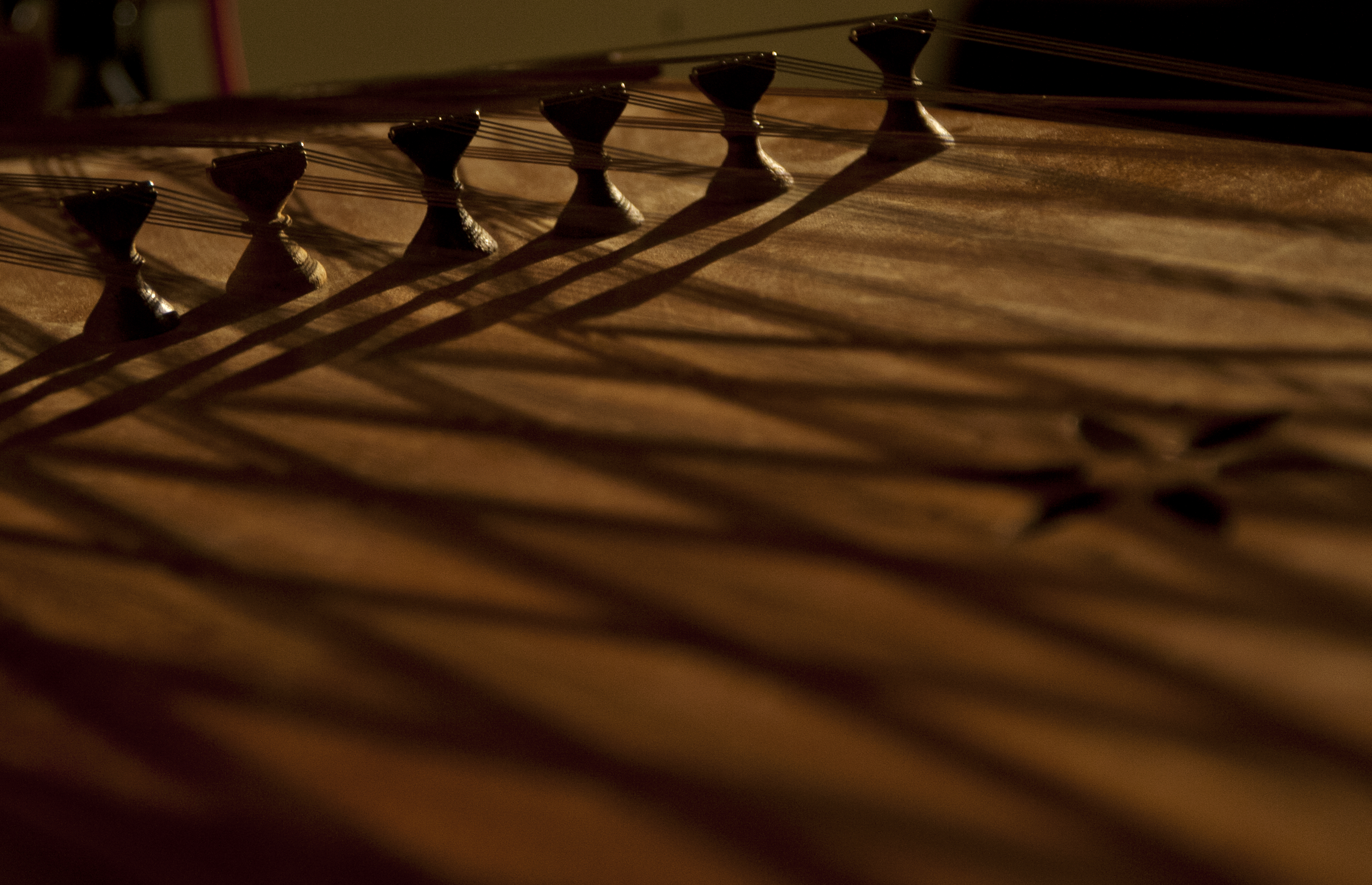 Santur / Santour / Santoor : Persian musical instrument. Photo by Dena Barmas / PDN